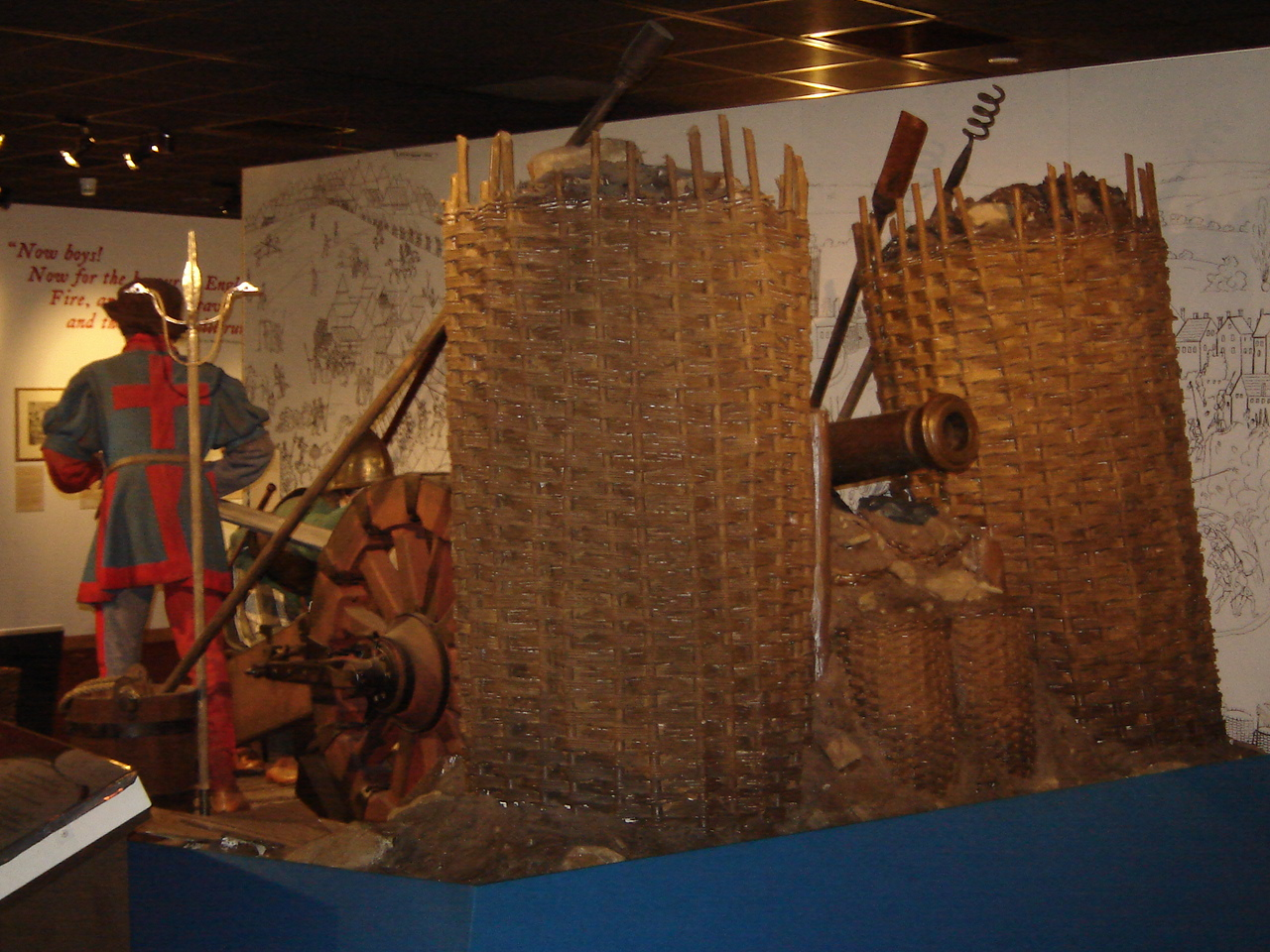 internal photographs of the national army museum. The Making of Britain Gallery tells the story of the development of Britain and its army - a central diorama shows a Tudor gun on a replica carriage in a scene at the Siege of Boulogne.